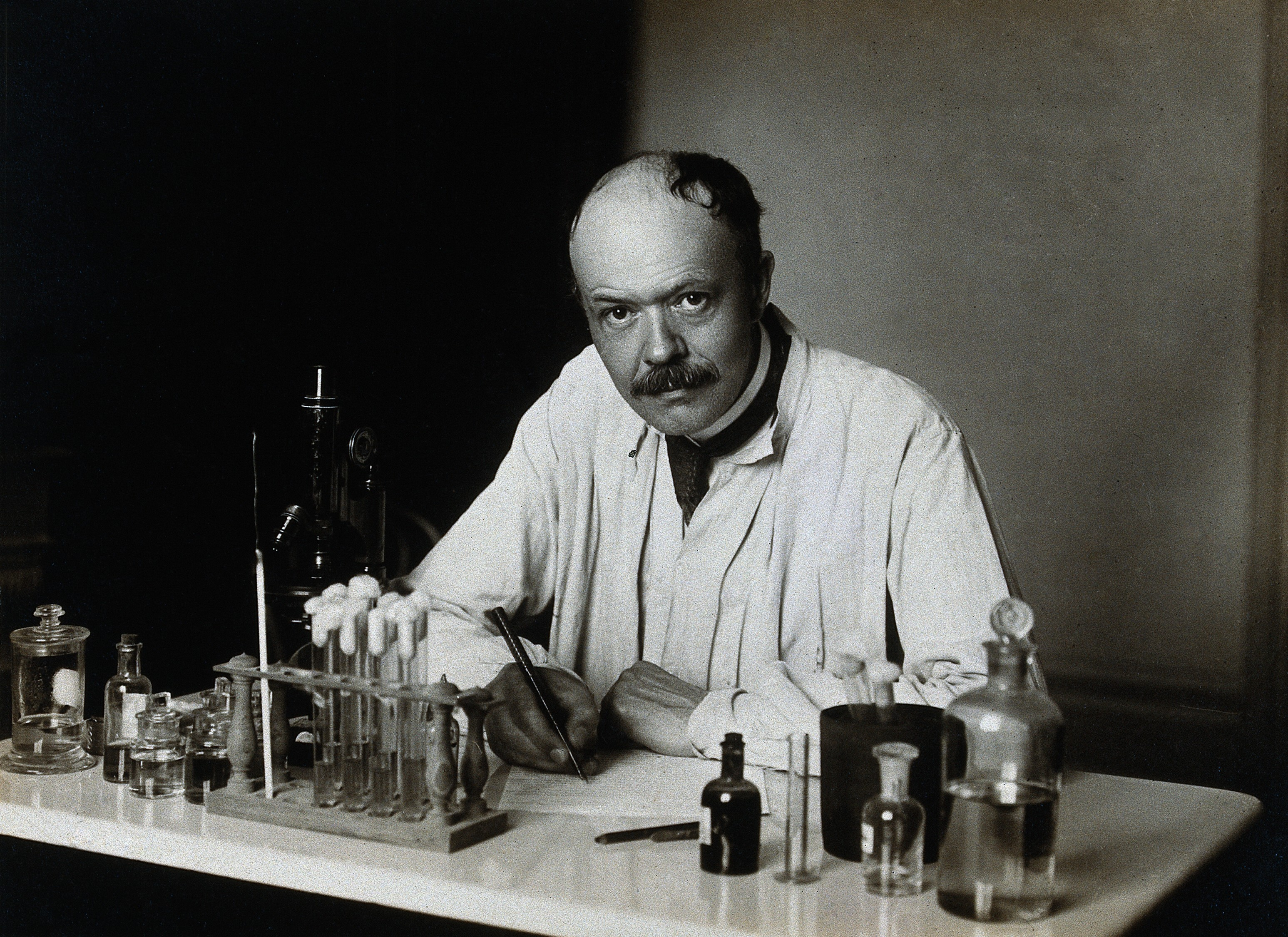 Charles Jules Henri Nicolle. Photograph. Iconographic Collections Keywords: portrait photographs